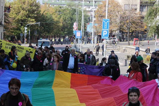 First successful gay pride parade in Belgrade.